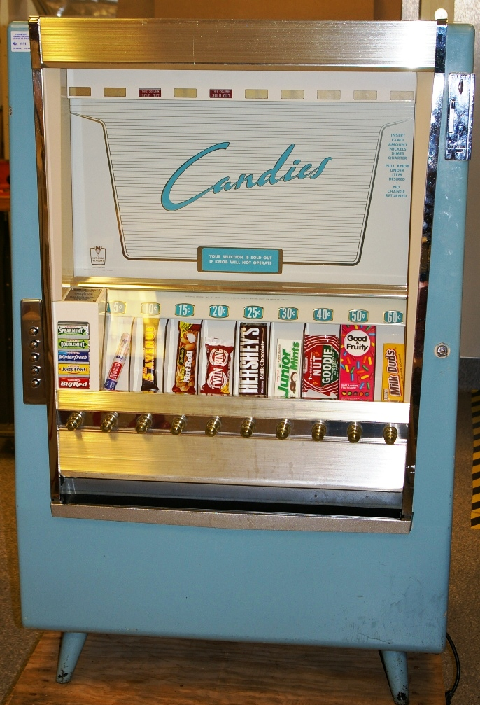 This vending machine was made by National Vendors, Inc., of 50555 Natural Bridge, St. Louis 15, Missouri, circa 1952, though there appear to be patent dates on the machine as late as 1960. Photograph of a vending machine made in 1952. Collection of The Minnesota Historical Society.